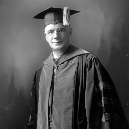 Gleason Archer pic from 1920.